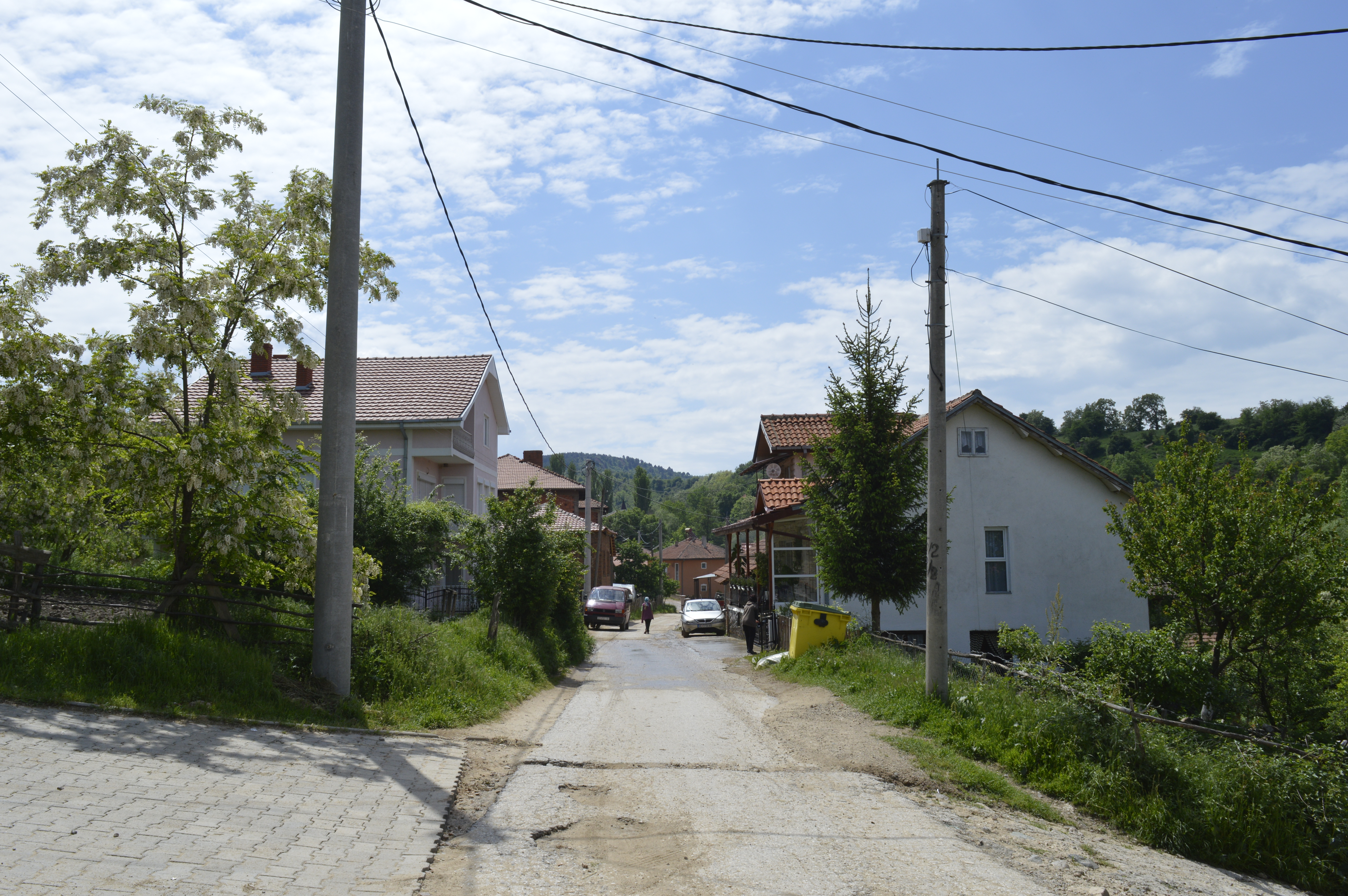 Main street in the village Crnik